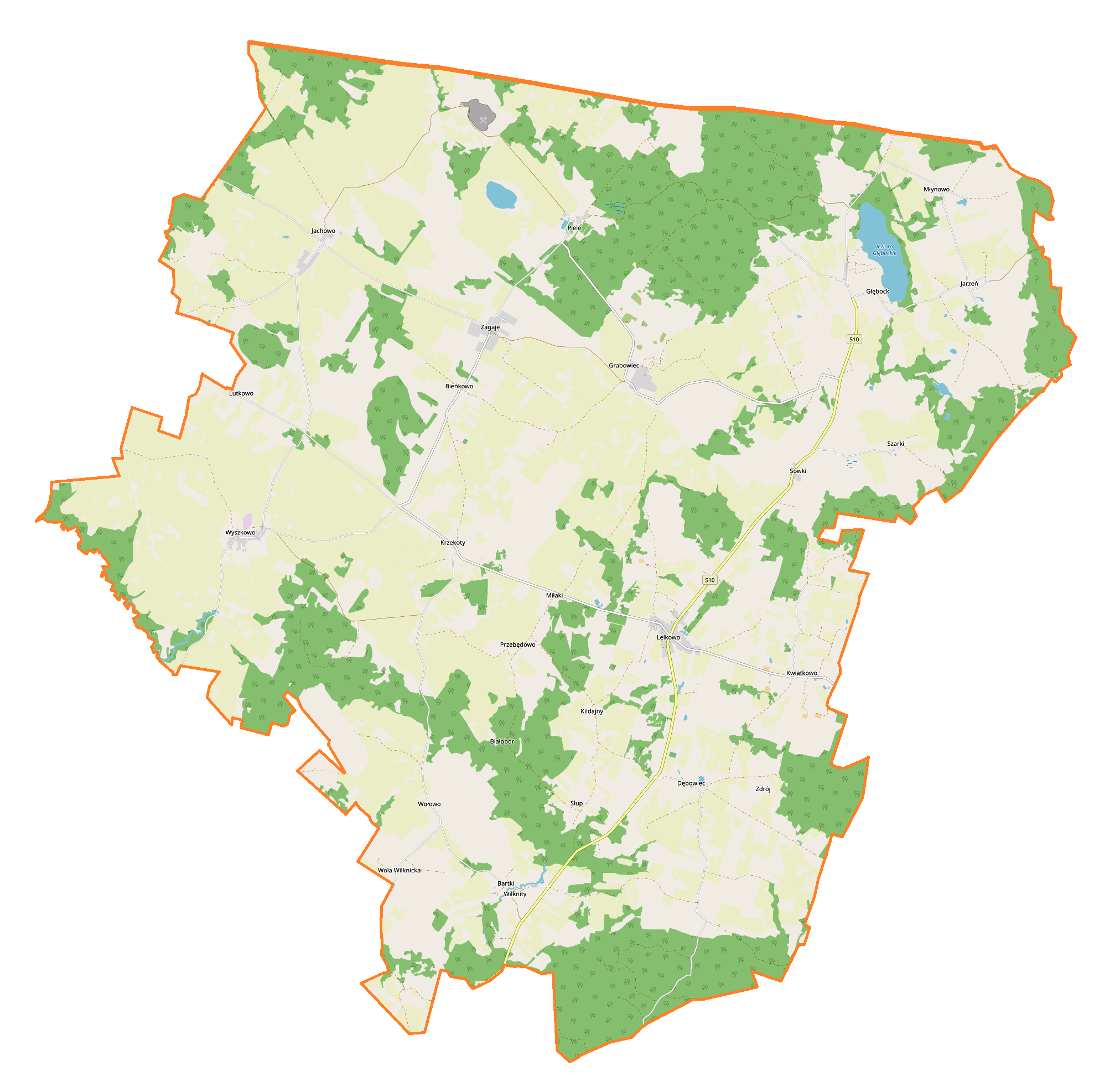 Location map